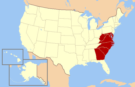 Created by Nimur as per the definition in Old South article.